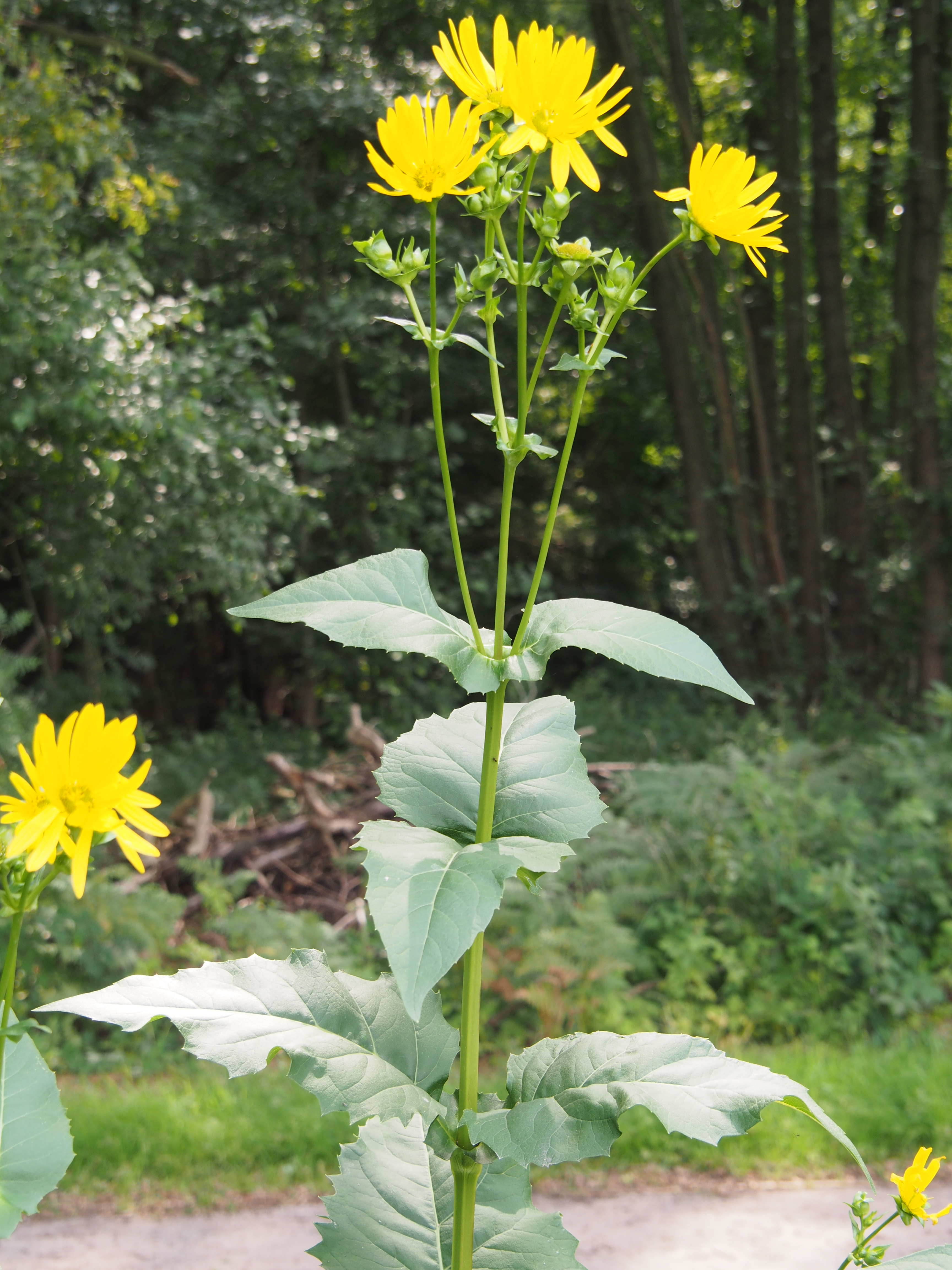 Silphium perfoliatum ; Lower Saxony, Germany